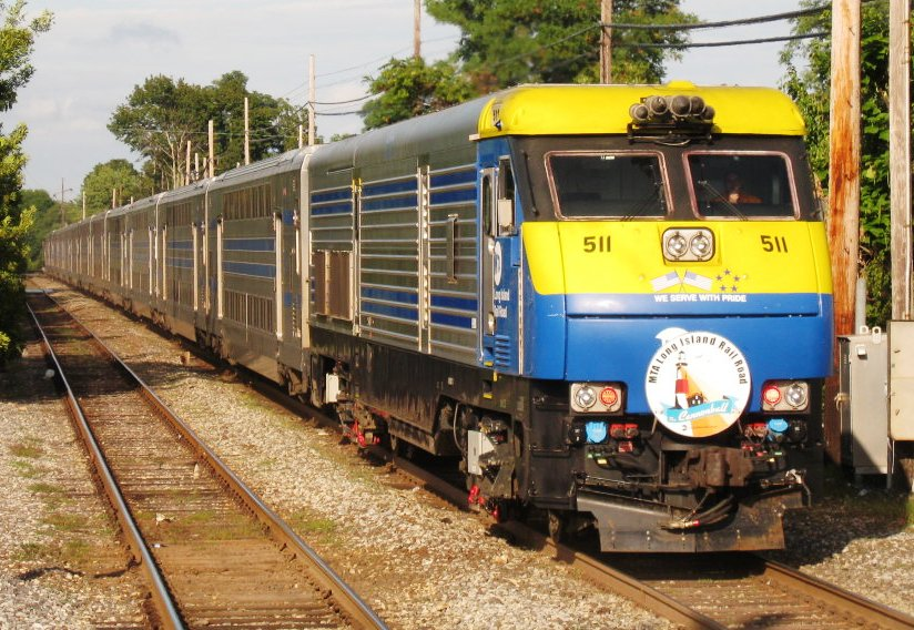 The LIRR Cannonball, an express train from NYC to the Hamptons that runs on Fridays only during the summer, has just passed through the Bay Shore Station.